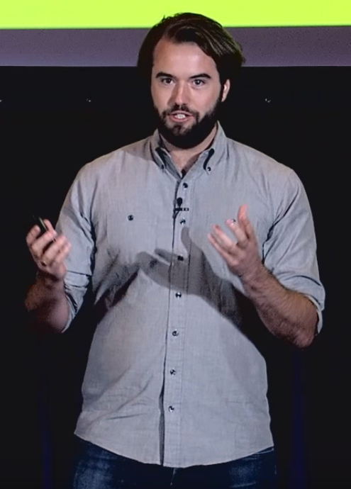 Youtube description: Mobile is a real problem for many brands and agencies. On mobile, content is shorter and simpler, and advertisers have to find their way around new platforms in order to reach consumers. A one-size-fits-all strategy doesn’t work, and neither do old desktop formats, like banners or pop-up ads. So what does? In this session, Kik Co-Founder and CTO Chris Best will discuss how apps like WeChat, Line, and Kik are connecting brands with consumers in a true one-to-one setting, offering more intimate engagement opportunities than are found in traditional social media channels. Chris will draw on real-life examples from the publishing, retail and film industries, illustrating why opt-in advertising is the future of mobile. Presentation: Featuring: Chris Best, Co-Founder & CTO at Kik Filmed at Mobilenomics Deer Valley Summit, 2015